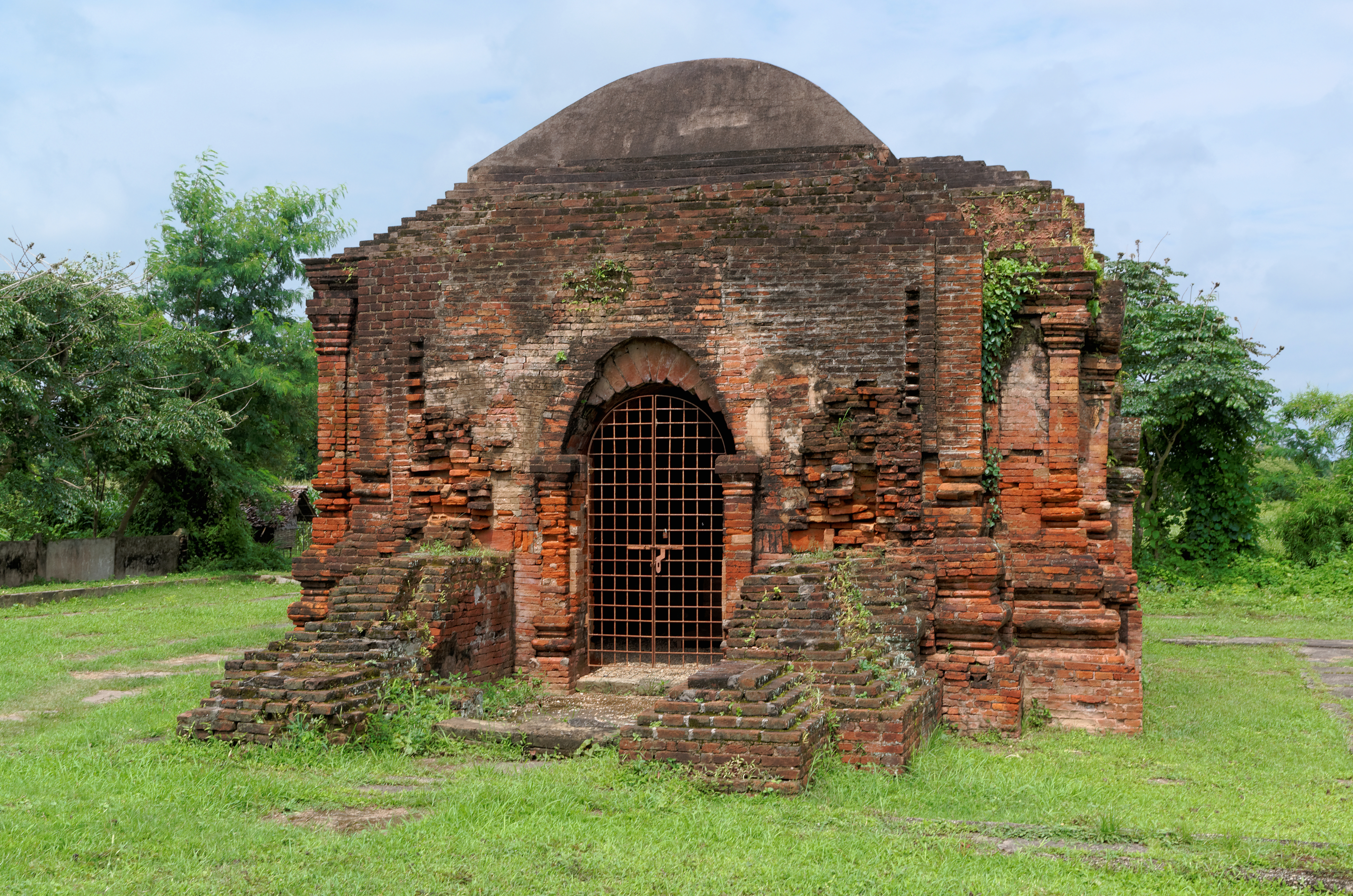 East Zegu Temple at Sri Ksetra archaeological site near Pyay in Myanmar